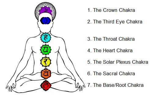 This picture depicts the seven major Chakras with descriptions.